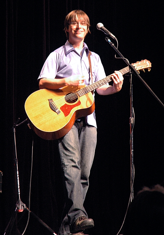 Just Roberts at a concert performed at Foothill College, Los Altos, CA